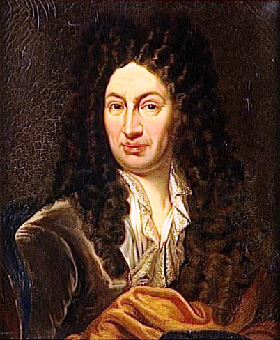 Portrait of the 17th Century French critic and poet, Jean Chapelain, a founding member of the Académie Française.